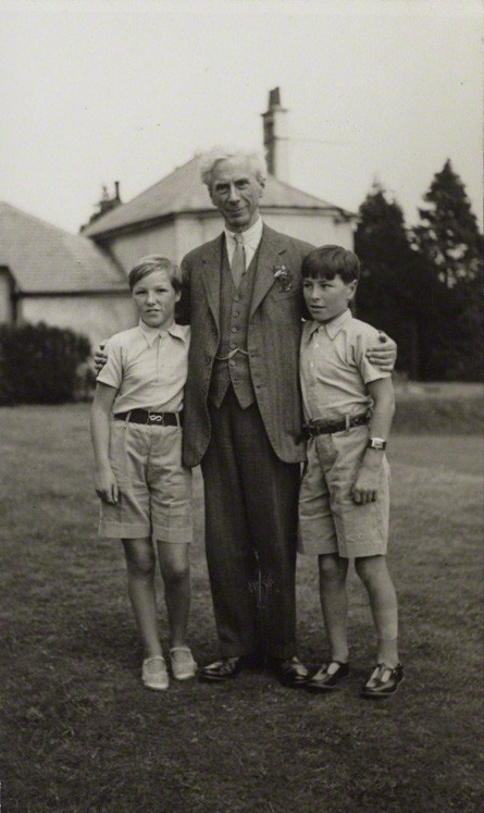 Bertrand Russell with his children in 1935